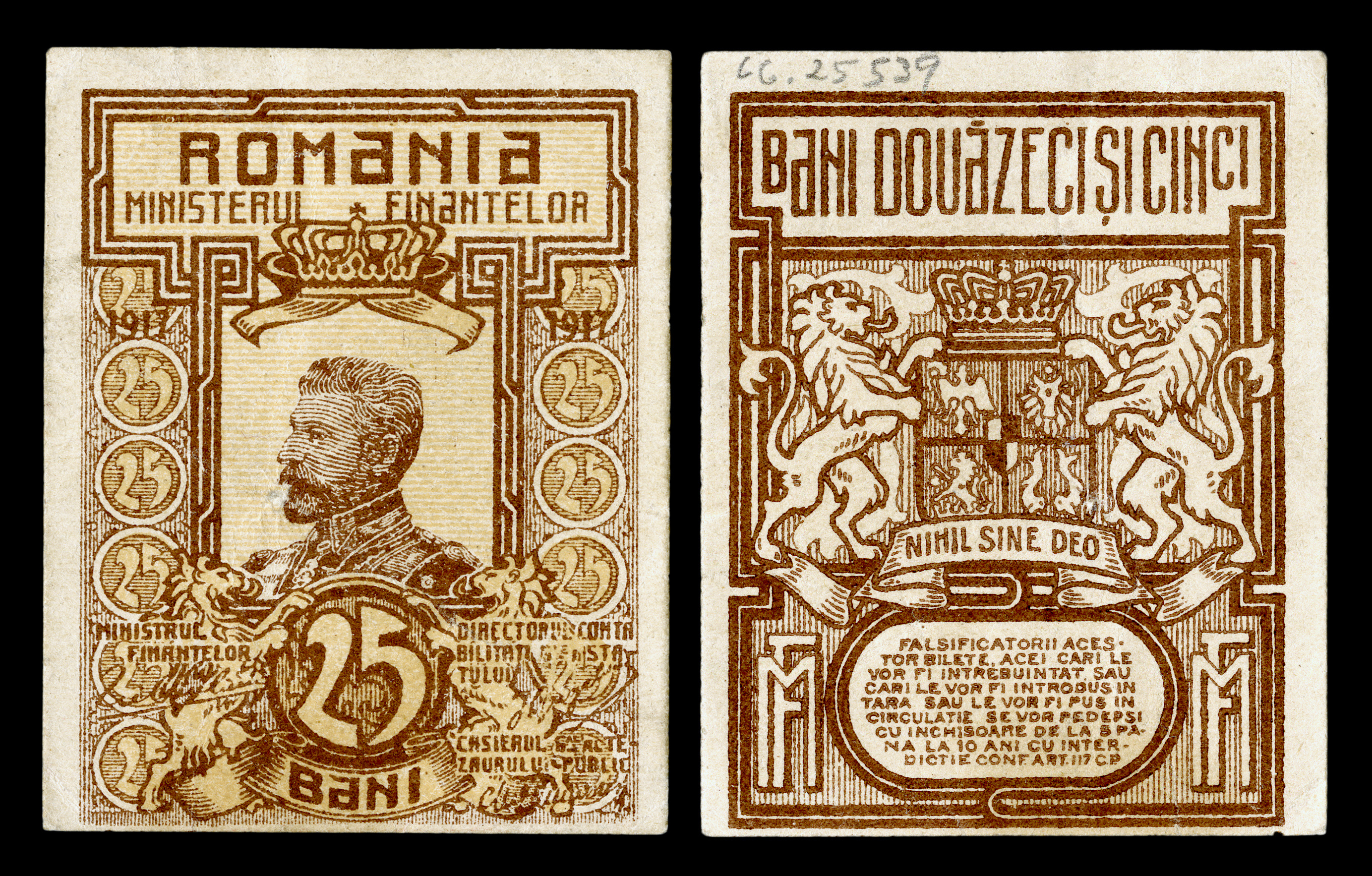 Kingdom of Romania, Emergency WWI issue, 25 Bani (1917), depicting Ferdinand I of Romania.